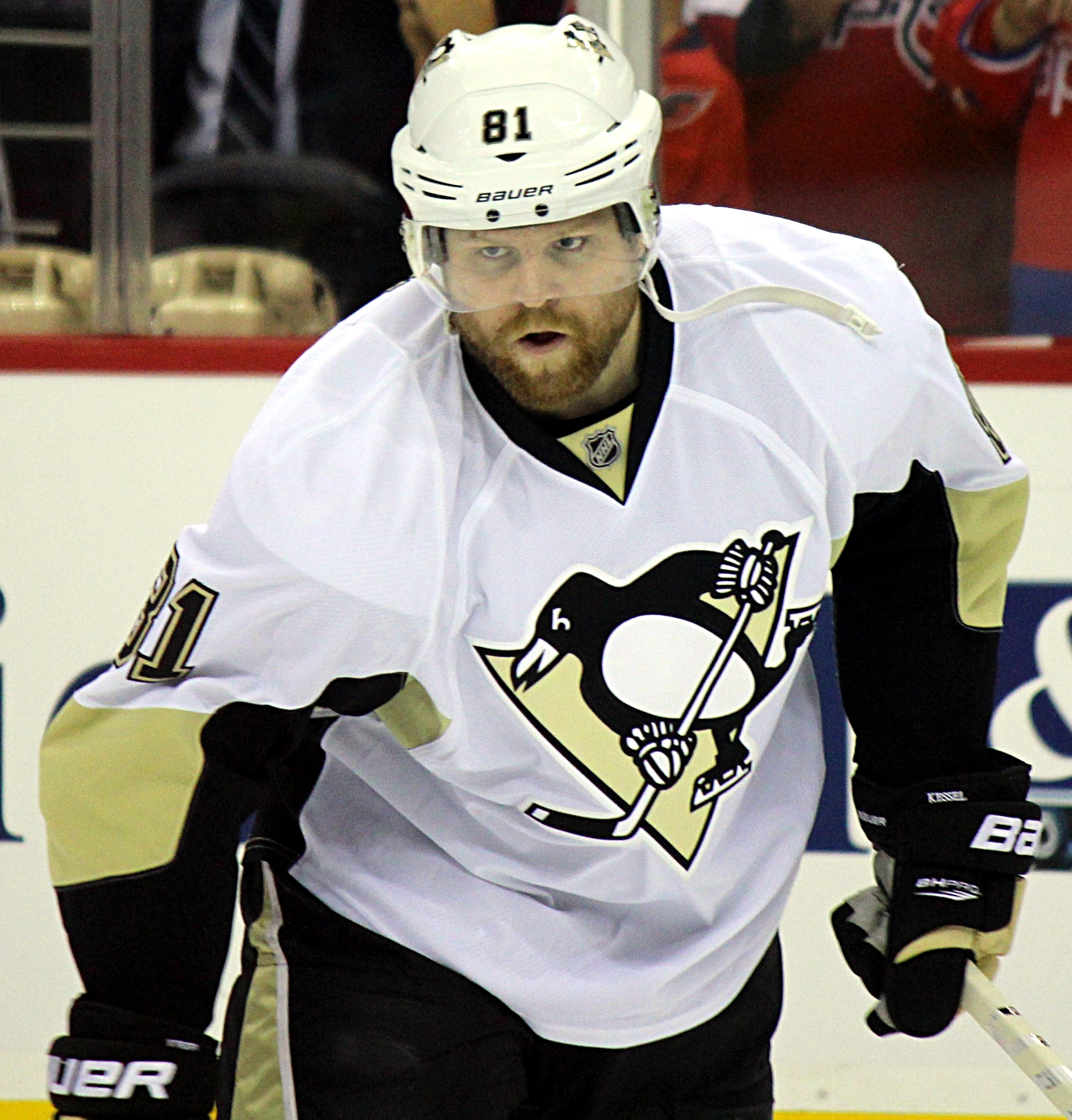 Pittsburgh Penguins forward Phil Kessel during a game against the Washington Capitals, Thursday, April 28, 2016 at Verizon Center in Washington, D.C.